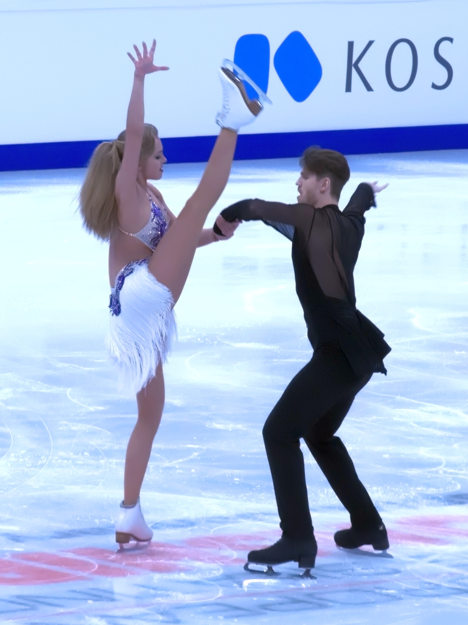 Alexandra Stepanova and Ivan Bukin at the 2018 European Figure Skating Championships in Moscow